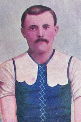 Cigarette card of Jack Baker from the 1905 Wills Past and Present Champions series.